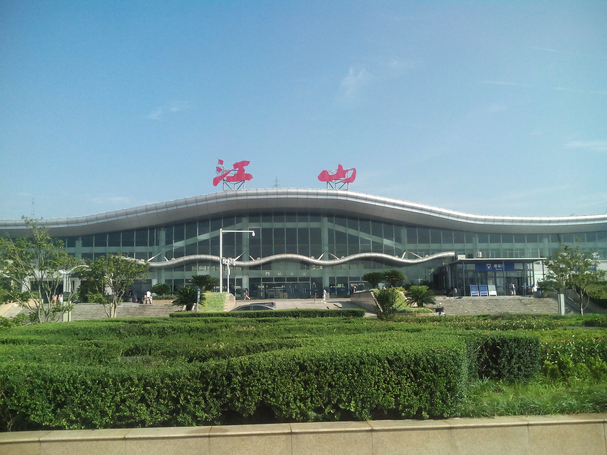 201507 Jiangshan Station